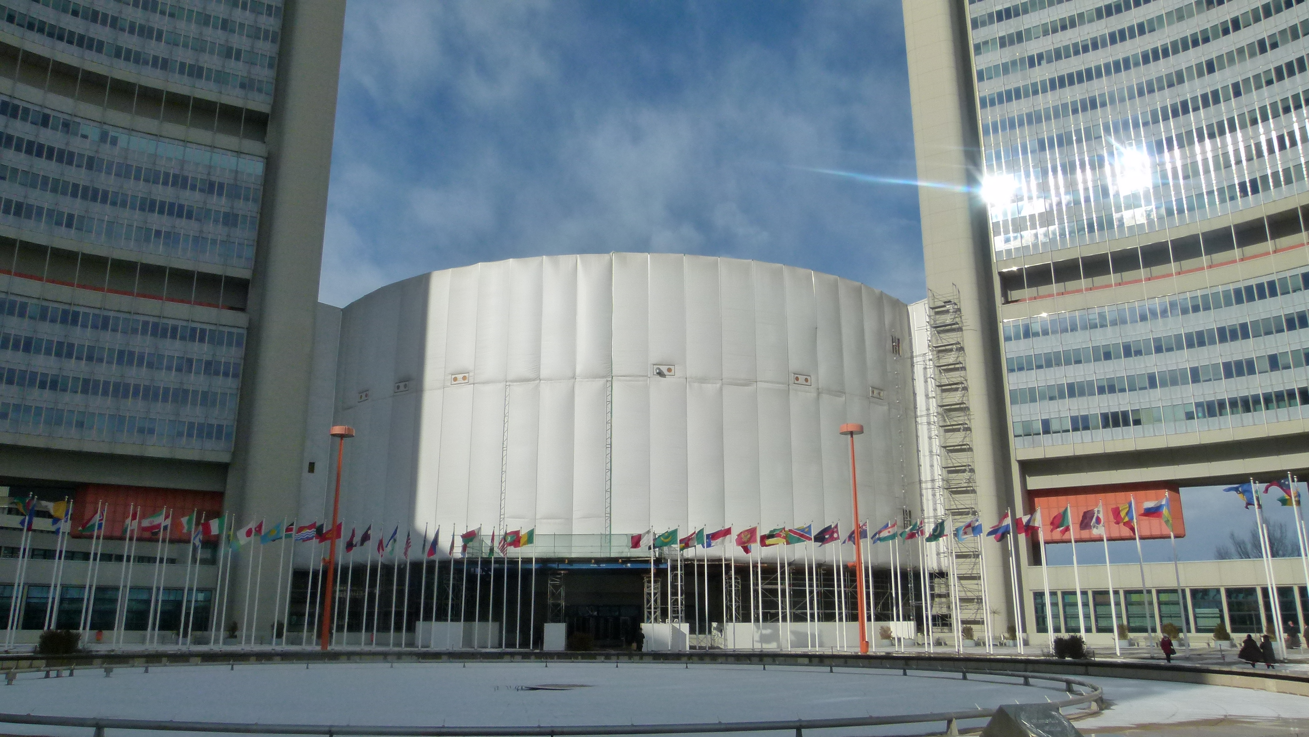 Vienna International Centre - central building with conference halls